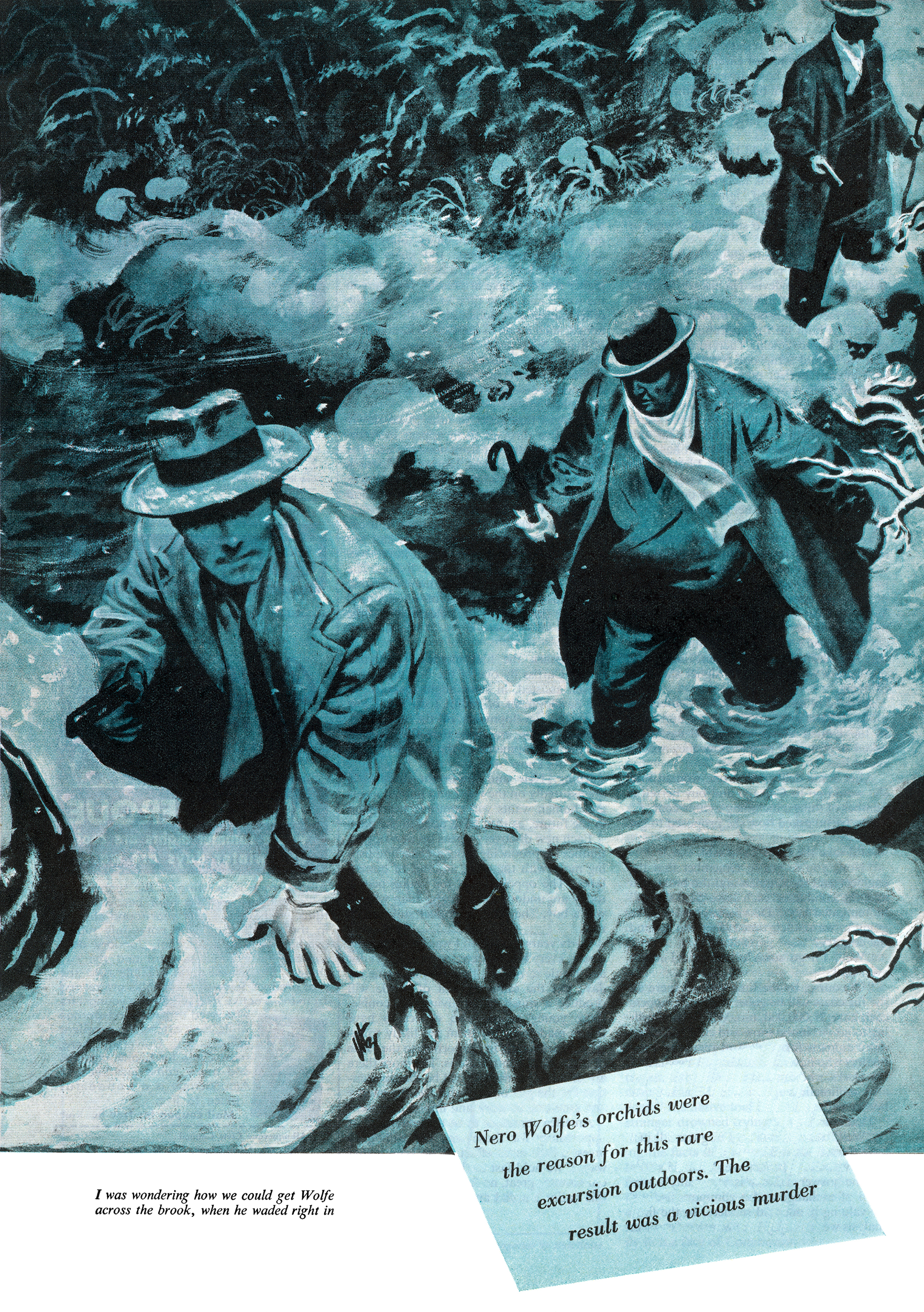 Lead illustration from The American Magazine printing of "Door to Death", the first appearance of the Nero Wolfe short story by Rex Stout